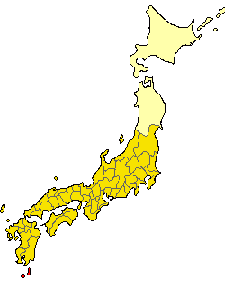 The location of Tane Province of Japan in 702. From image:Japan_prov_map702.png